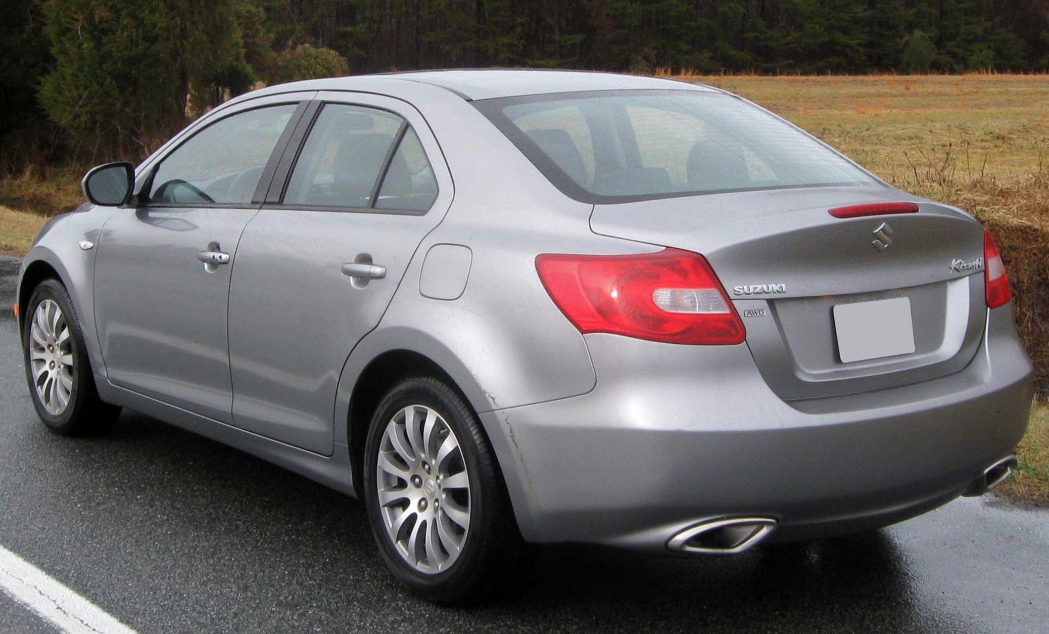 2010 Suzuki Kizashi SE AWD photographed in Marshall Hall, Maryland, USA.